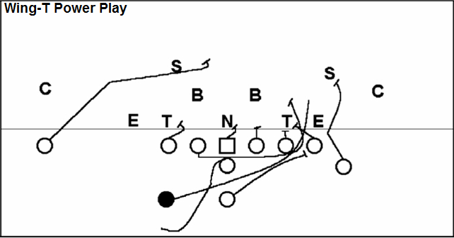 Wing-T Power play (132)